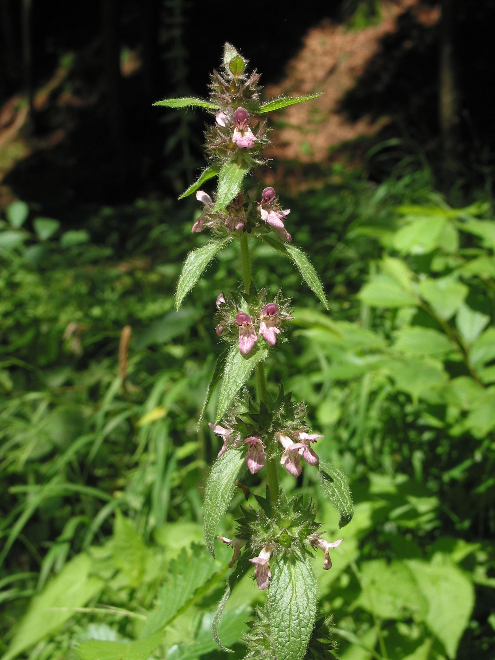 Alpine woundwort (Stachys alpina), Adelegg, Schleifertobel, Germany